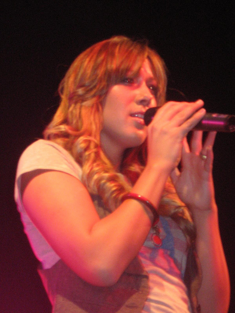 Colbie Caillat performing in Birmingham, Alabama.